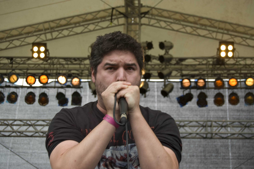 Hernan "Eddie" Hermida from All Shall Perish live at a concert in 2008.